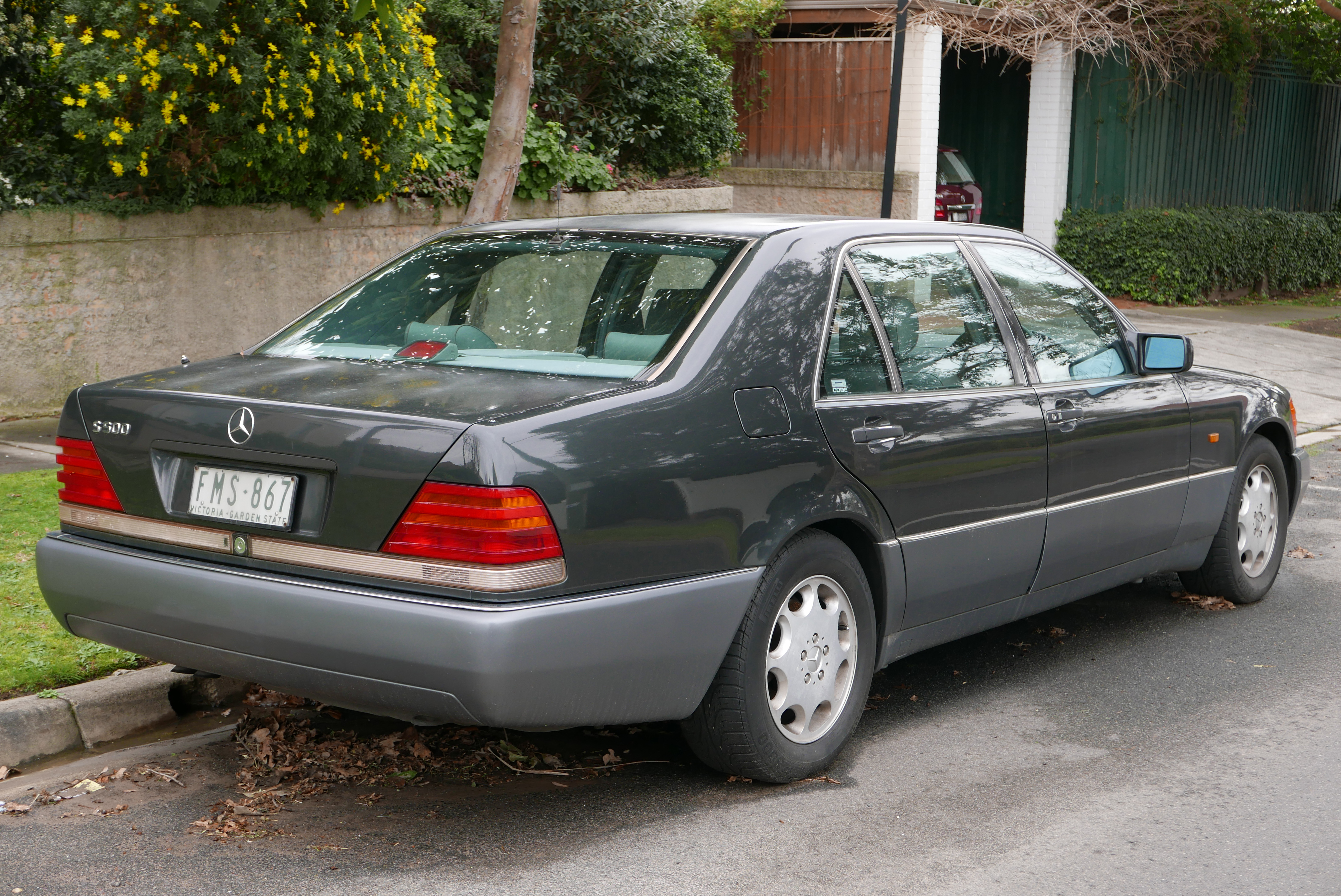 1992 Mercedes-Benz 500 SEL (V 140) sedan, badged "S 500". Despite the date discrepancy between the description and the vehicle registration information below, a check of the VIN reveals a "delivery date" of 26 November 1992. The styling of the car is also representative of a 1992–1993 vintage V 140 but not one from 1994. Photographed in Kew, Victoria, Australia. Vehicle registration enquiry results Jurisdiction Victoria Registration FMS867 Chassis code WDB1400512A117183 Engine code 11997022030348 Compliance date 1994-04 Year of manufacture 1994